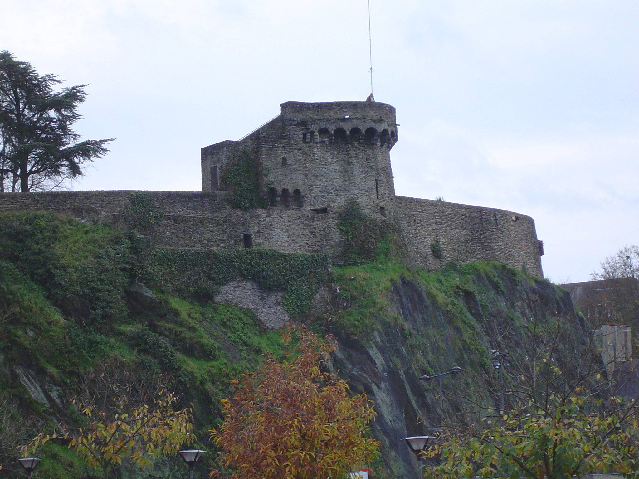 Remparts of Saint-Lô